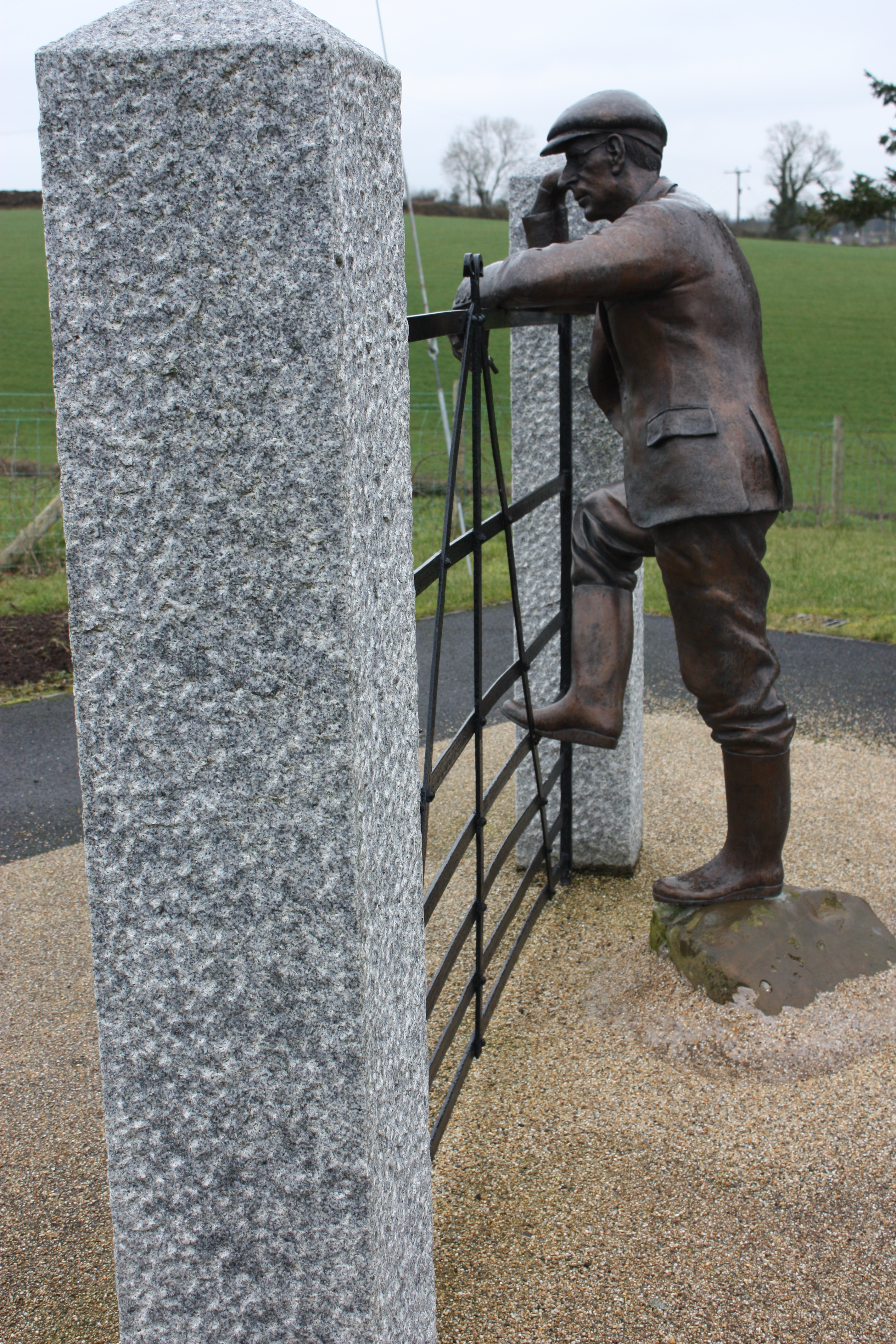 Harry Ferguson Sculpture, Harry Ferguson Memorial Garden, Magheraconluce Road, Growell, County Down, Northern Ireland, February 2011